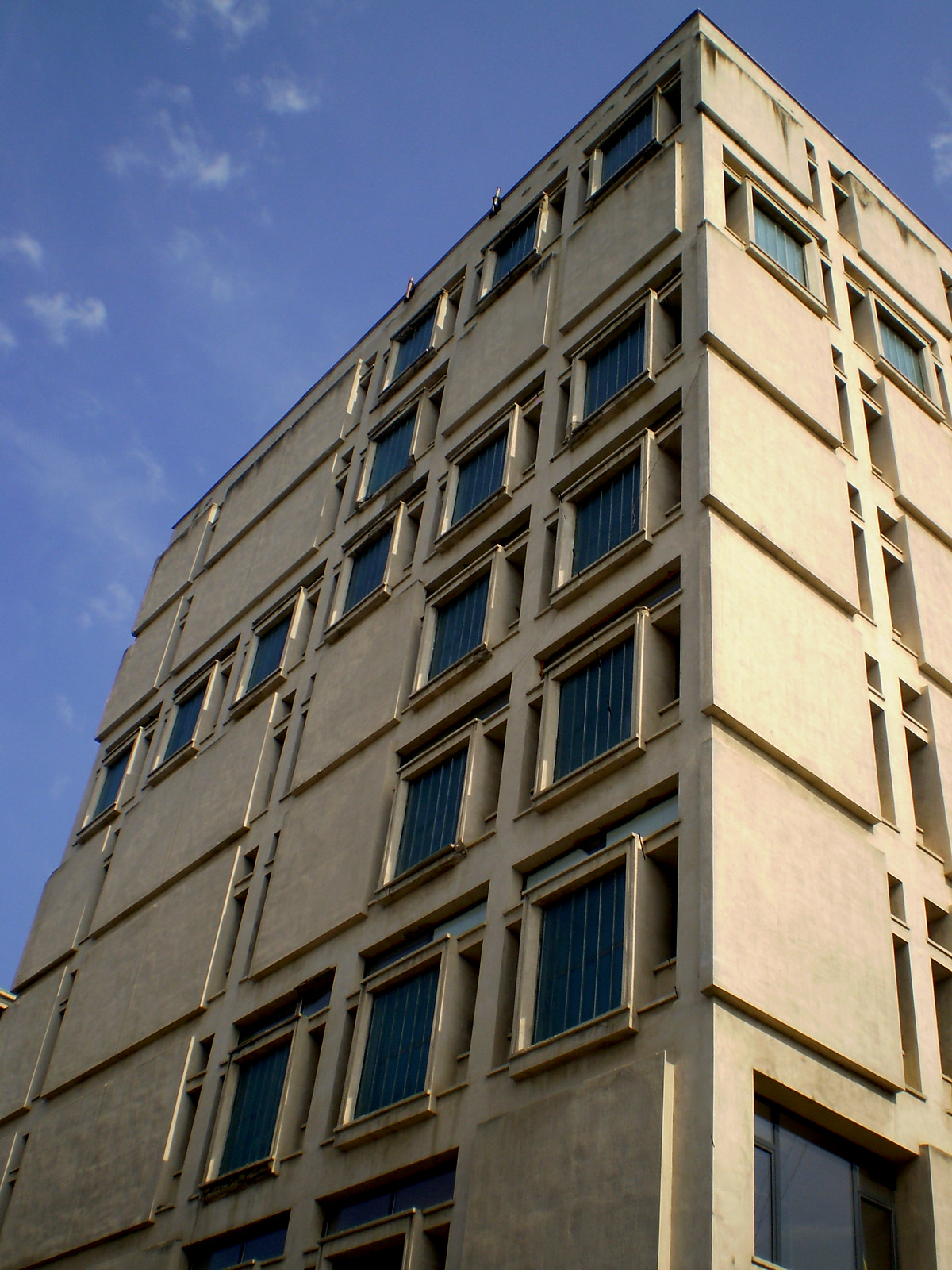 Alexandru Ioan Cuza University , Building C , Faculty of Informatics of Iasi , Iaşi , Romania